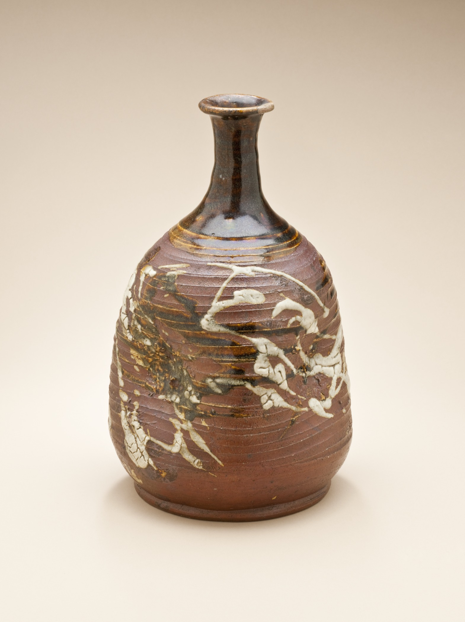 Japan, mid-19th century Alternate Title: Tokkuri Furnishings; Accessories Aizuhongō ware; stoneware with brown and white glazes Height: 10 1/8 in. (25.72 cm); Diameter: 6 1/4 in. (15.88 cm) Gift of James D. and Veronica H. Roorda (M.2008.264.2) Japanese Art